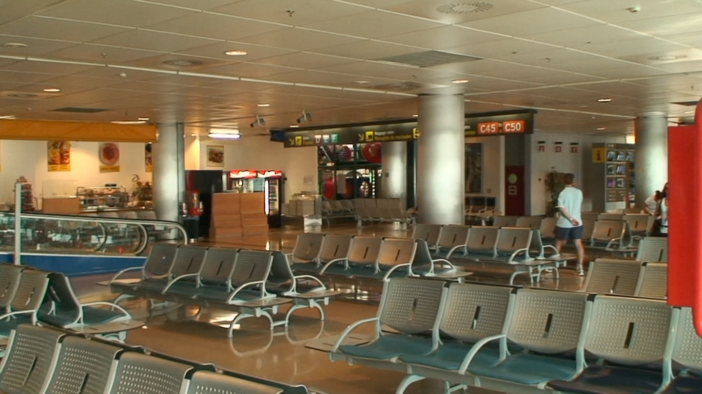 Gate C at Terminal 1 of Madrid Barajas Airport